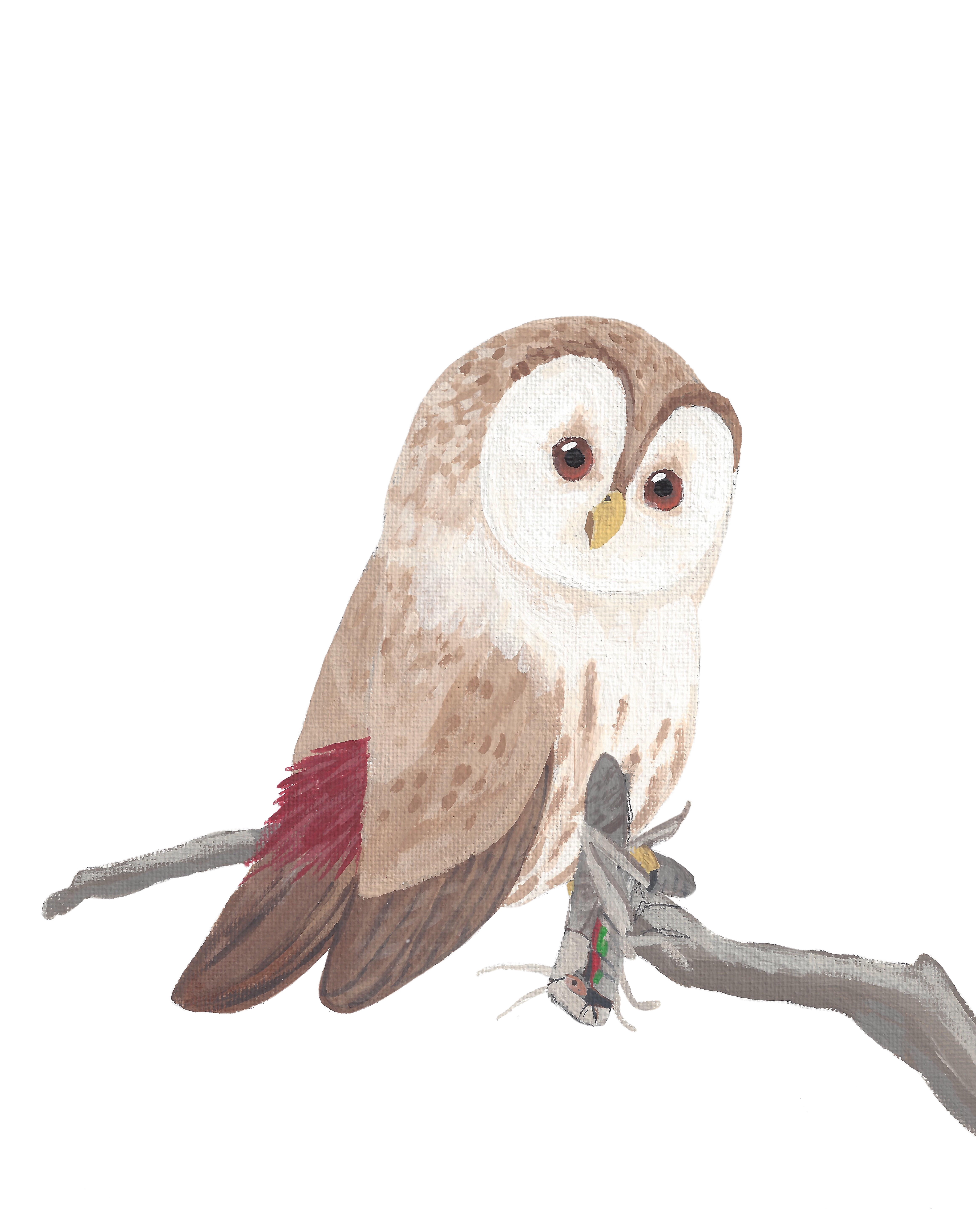 An artistic reconstruction of the extinct owl Paleoglaux artophoron based on all known published descriptions of the fossil. Medium is acrylic paint on canvas board.